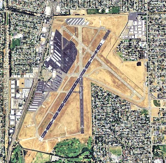 USGS digital orthophoto of Sacramento Executive Airport in California